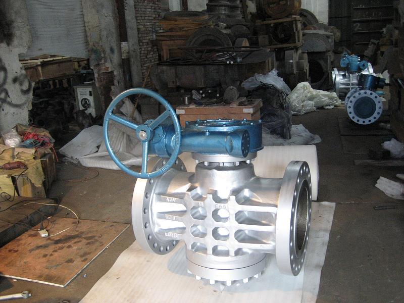 Duplex valve. Plug valve type. Valves and are generally made of plastic or steel, the latter being the most widely used in chemical and petrochemical applications. Steel grades range from the most common type, namely carbon steel, with standard stainless steel being the second most common. Stainless steel alloys, which include nickel or copper are used in applications that require higher corrosion or heat resistance. In such cases, the most commonly used valve configurations -- ball valves, gate valves, check valves, globe valves and butterfly valves -- are often forged or cast as duplex valves, super duplex valves, alloy 20 valves, monel valves, inconel valves, incoloy valves and 254 SMO valves (6Mo valves). Titanium valves are also used in some highly corrosive applications. Titanium is not a stainless steel alloy.